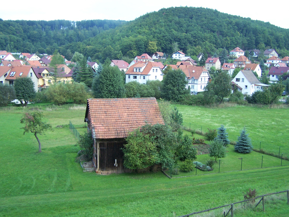 Unkeroda village - central part.